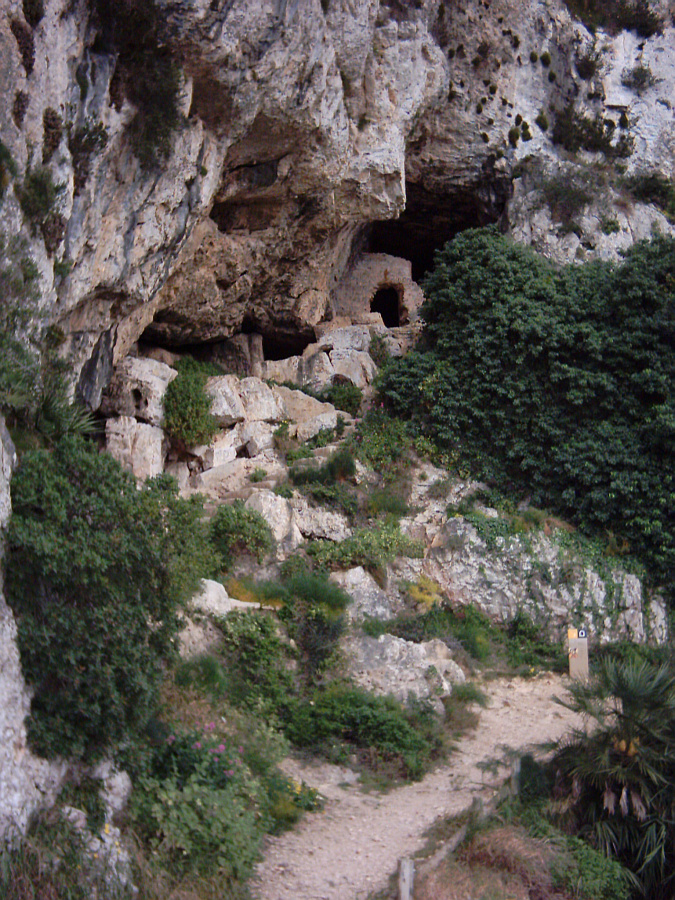 Cave Cova de l'Aigua, Montgó Natural Parc, Denia, Province of Alicante, Spain